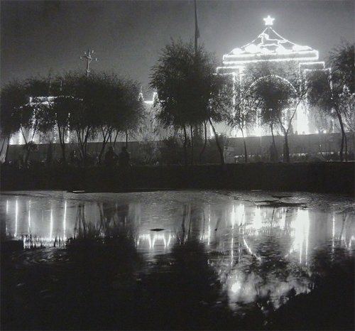 Inner Mongolia Museum, Night, in 1950s